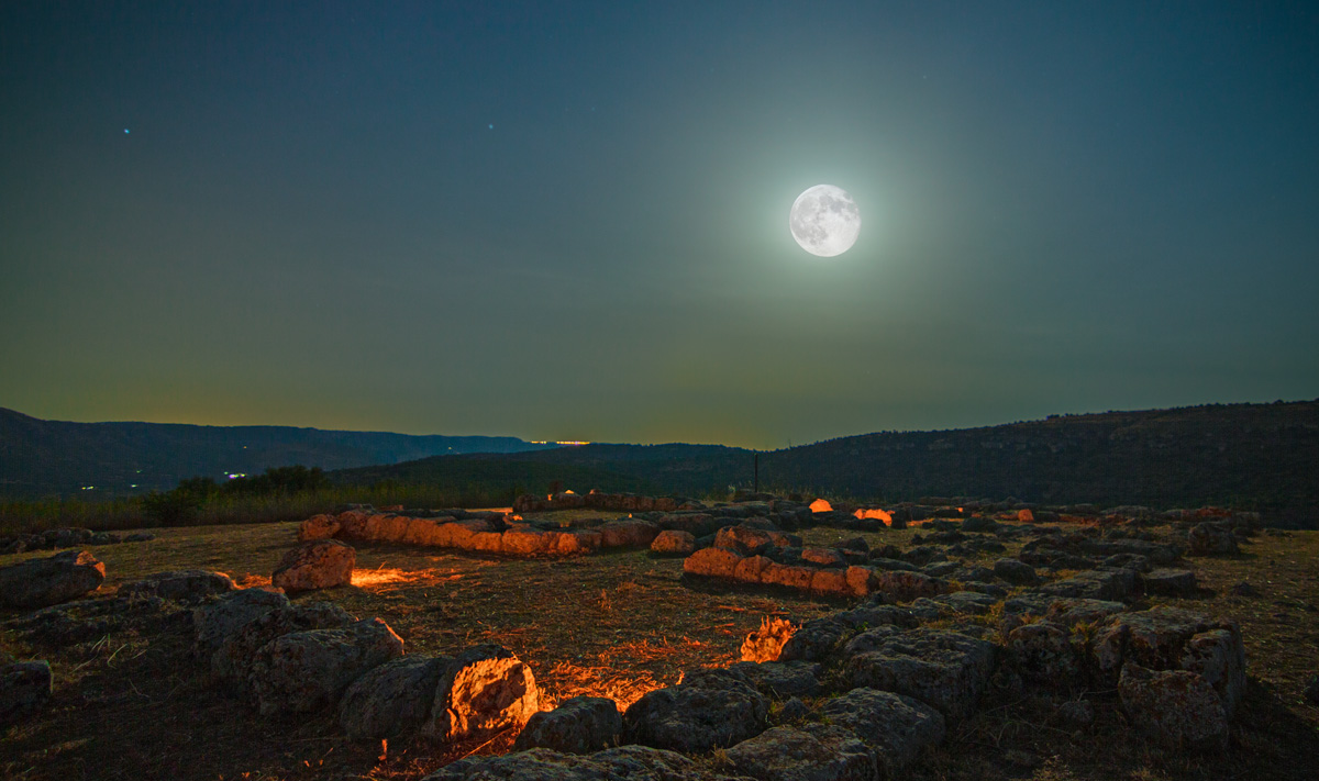 The Necropolis of Pantalica extends over some 1,200 m from north to south and 500 m from east to west in the region of Sortino. In the hilly terrain (caverns and precipices) and a natural environment of great beauty, about 5,000 tombs are visible, most of which have been hewn out of the rock face. Archaeological research has brought to light, in this zone, vestigial remains of dwellings from the period of Greek colonization. Materials of Mycenean origin and monumental structures were recognised, enabling the identification of the Anaktoron (Prince's Palace)..